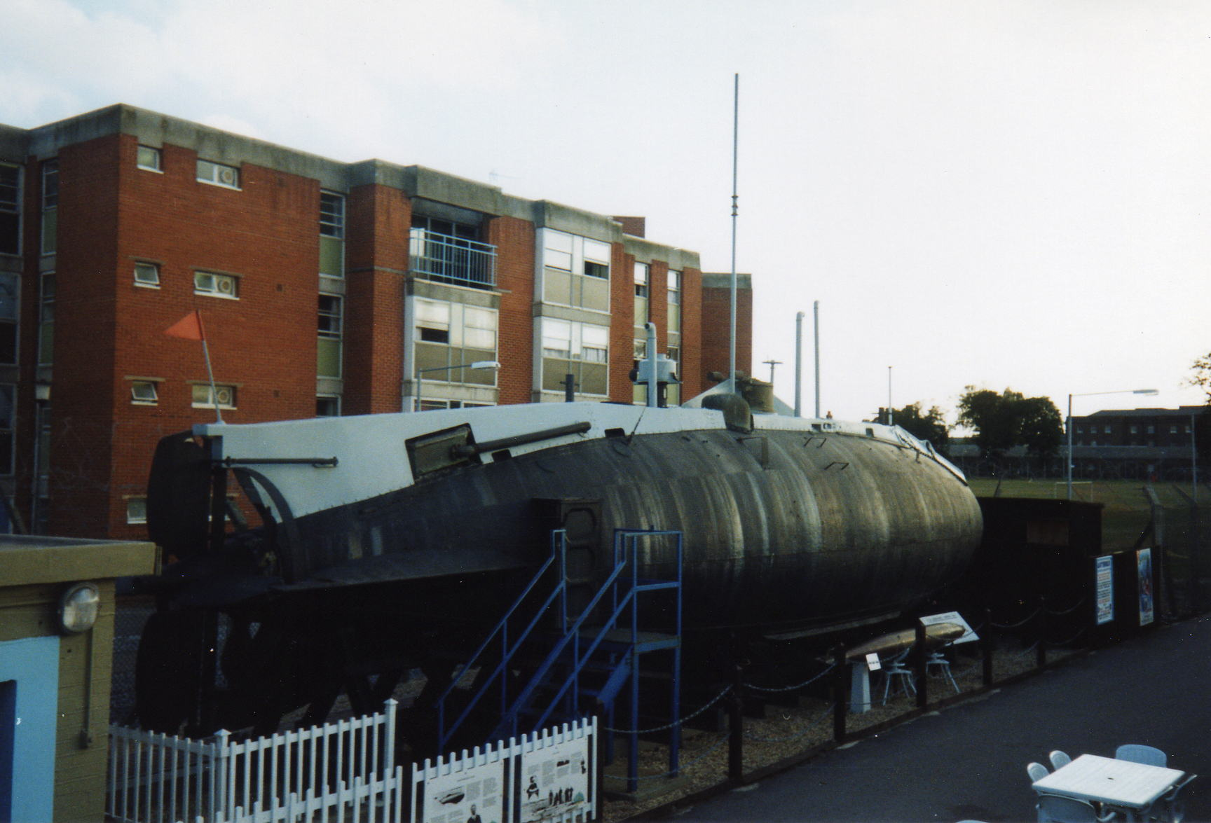 Photograph of the Royal Navy's first submarine Holland 1 as displayed in the open in 1991.